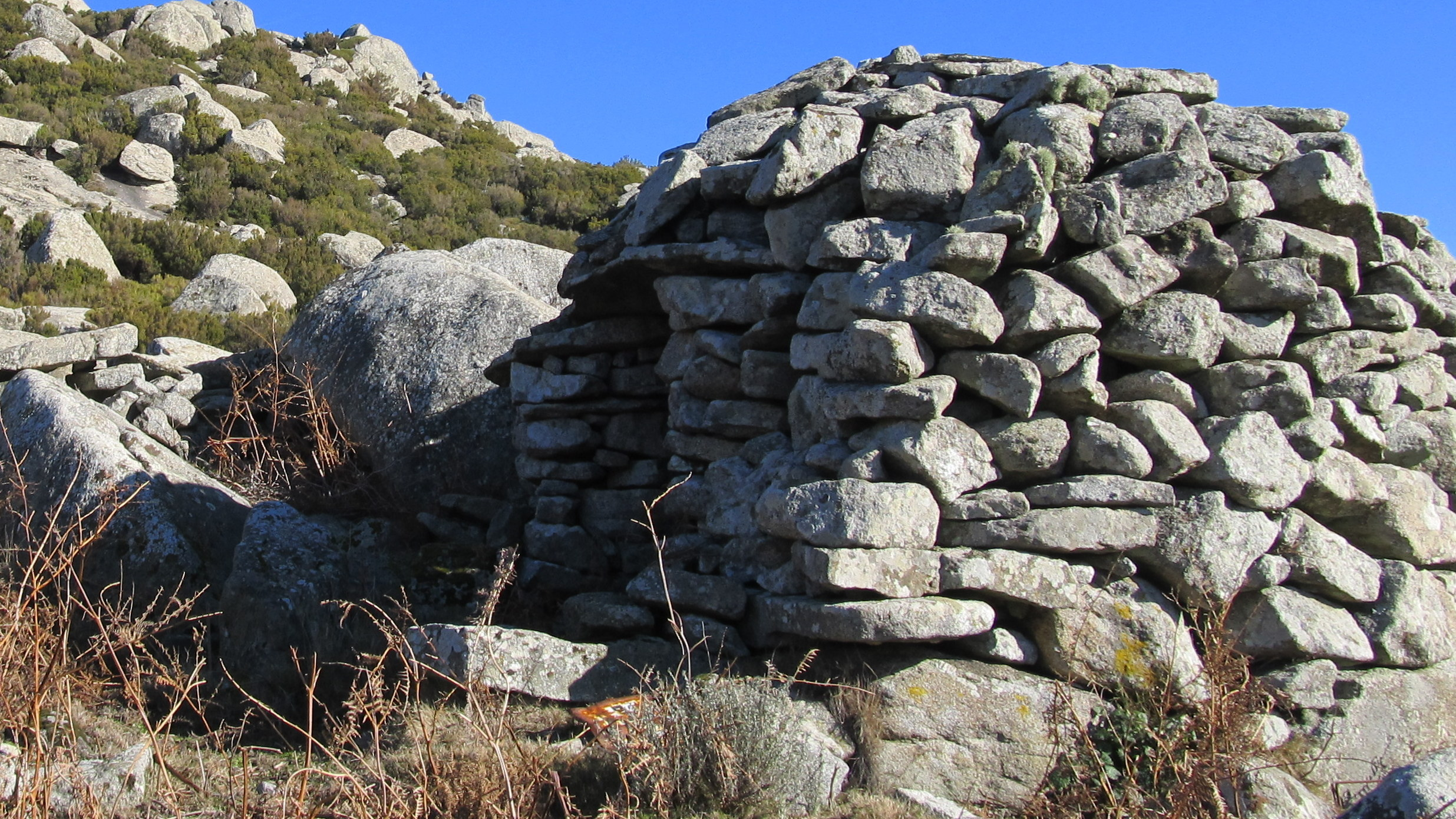 Elba island